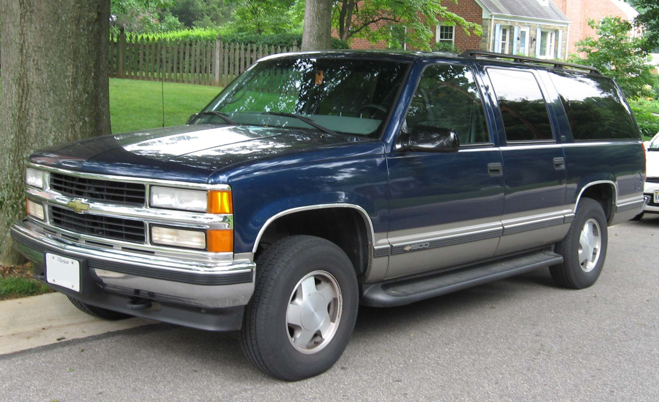 1997-1999 Chevrolet Suburban photographed in Kensington, Maryland, USA.